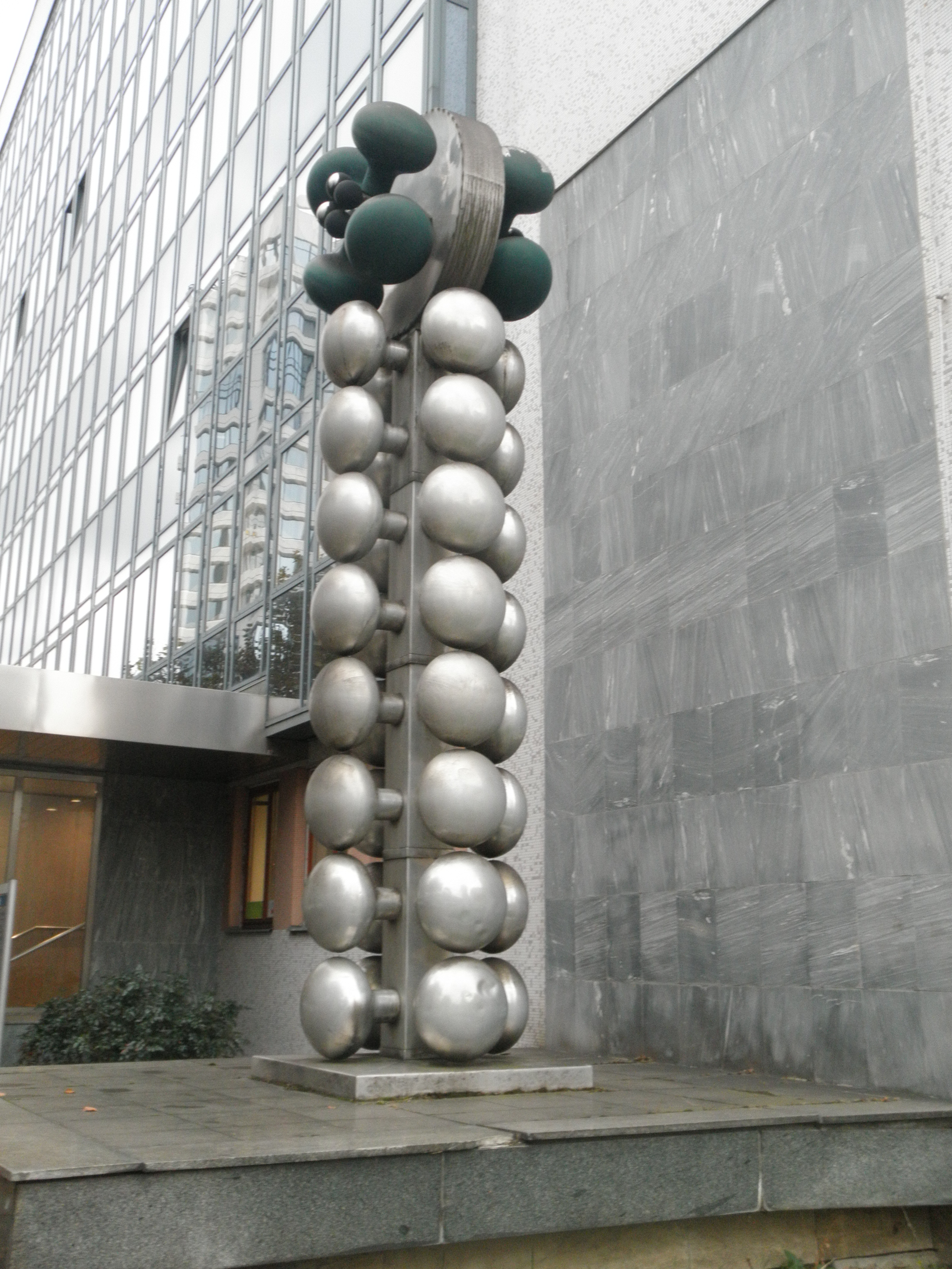 Photo of statue Health created by Jan Kratochvíl in 1975-1979. Installed in Jeremenkova 1056/40, Olomouc.